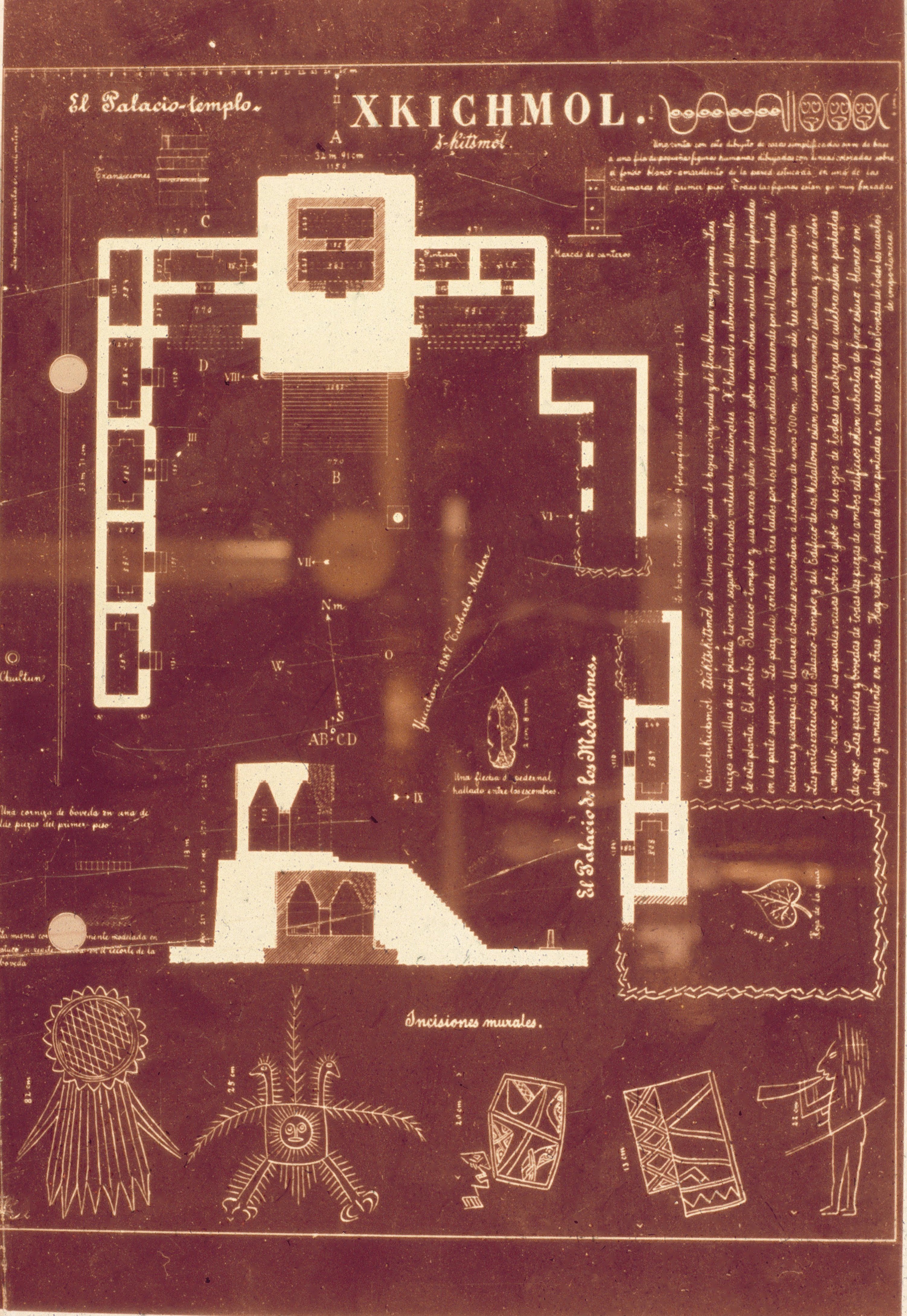 Mayan Xkichmook plan — Yucatan, Mexico. Credits Map by Teobert Maler